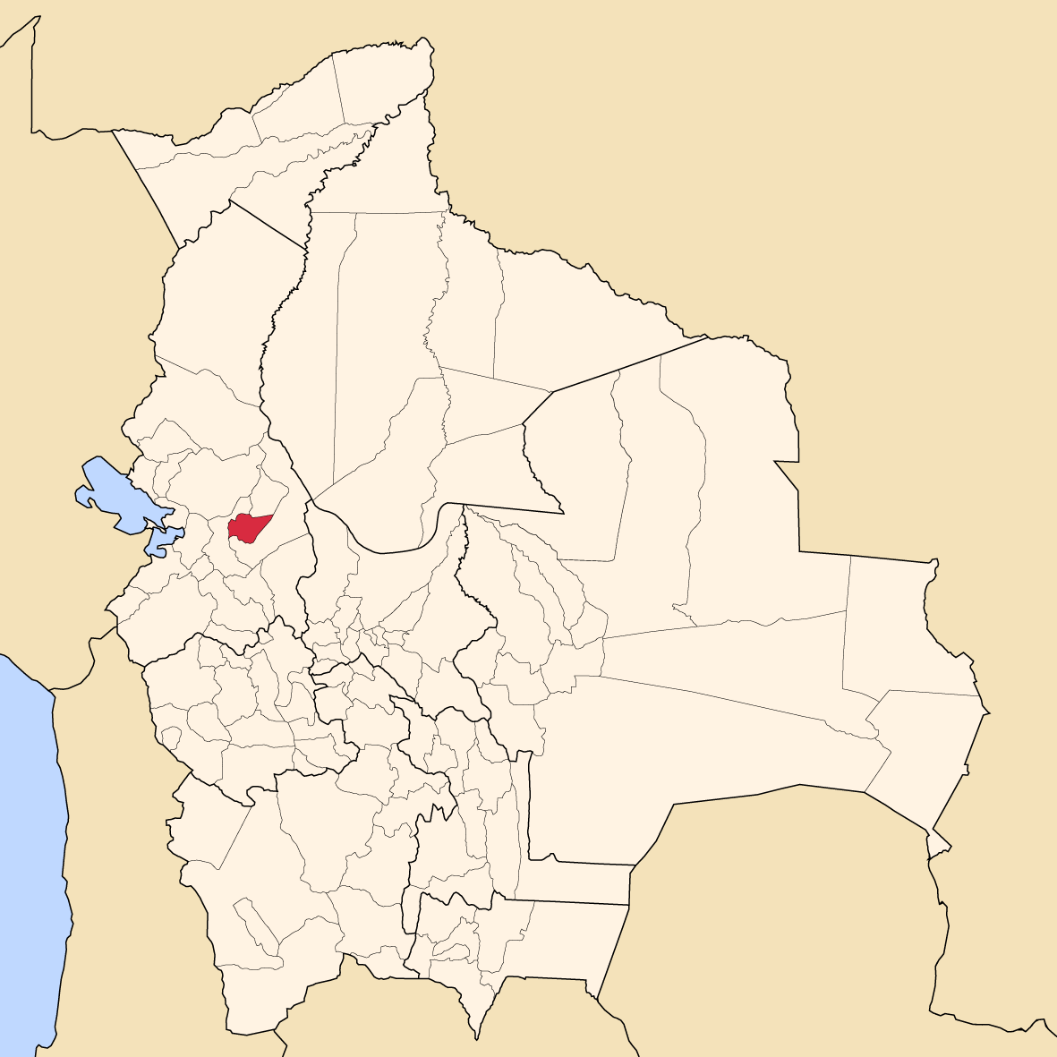 Map of Bolivia showing Nor Yungas province, La Paz